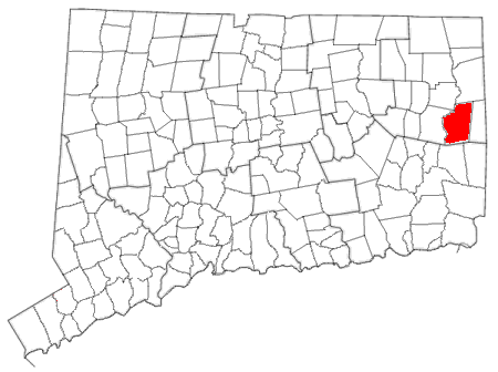 State of Connecticut, Plainfield in red.